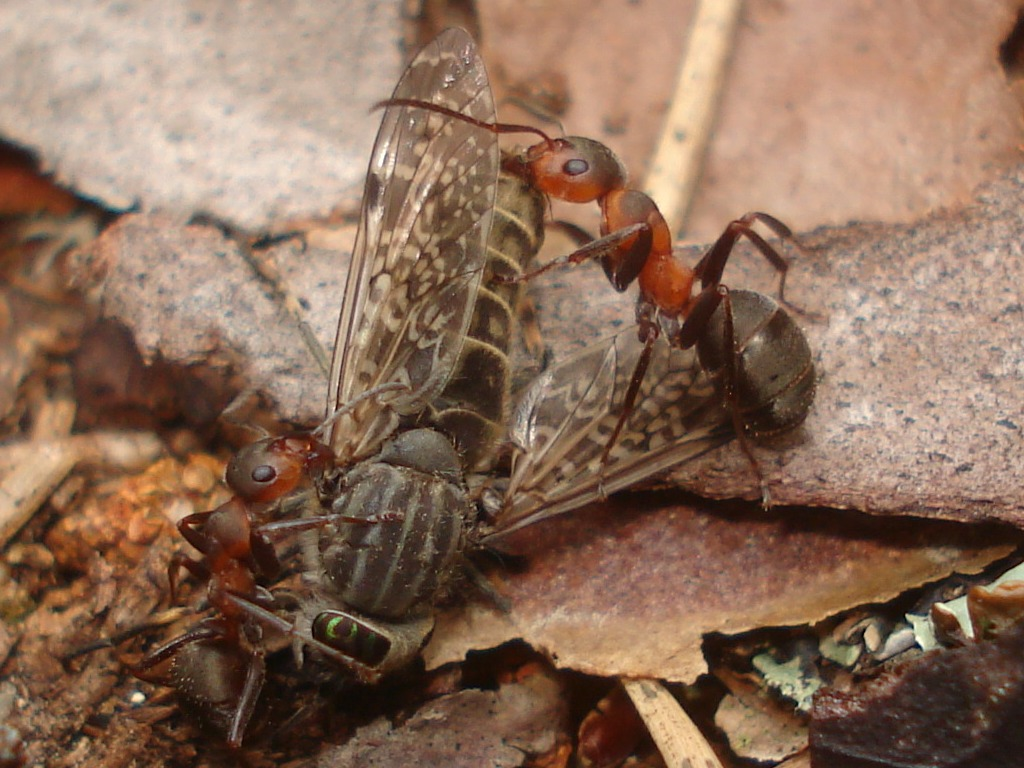 The Southern Wood Ant, or Horse Ant (Formica rufa)